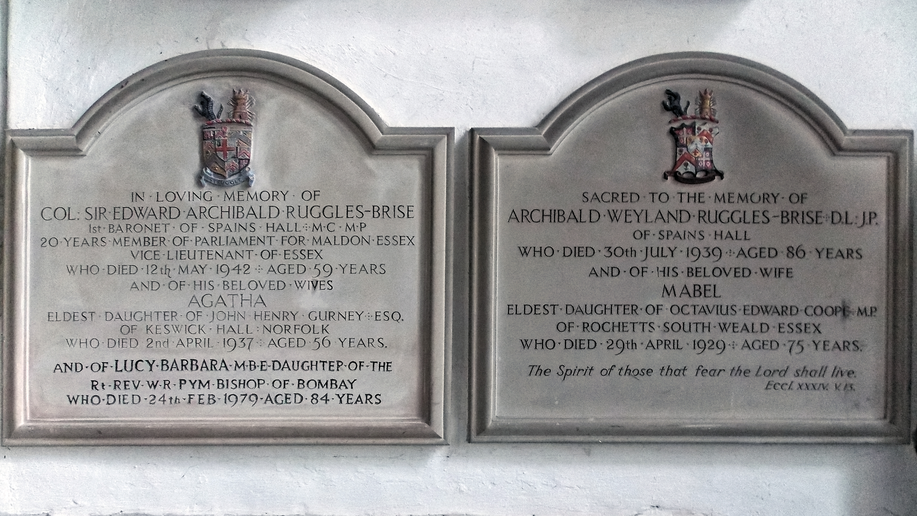 Wall memorial plaques to Col. Sir Edward Archibald Ruggles-Brise (d.1942), and his wife, Agatha (d.1937); and Archibald Weyland Ruggles-Brise (d.1939), and his wife, Mabel (d.1929), both of Spains Hall, in the north chapel of St John the Baptist's Church, Finchingfield, Essex, England.Software: file lens-corrected and optimized with DxO OpticsPro 10 Elite, and further optimized with Adobe Photoshop CS2.